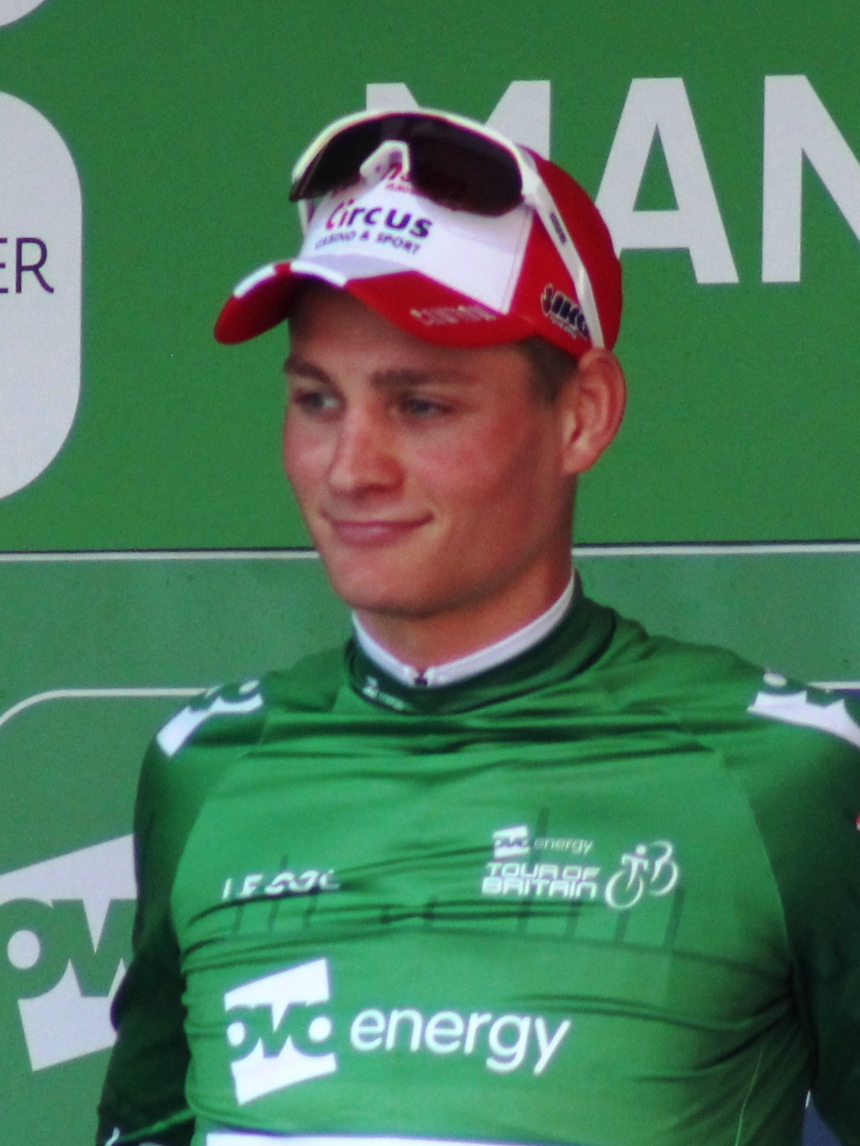 Mathieu van der Poel, winner of the 2019 Tour of Britain.